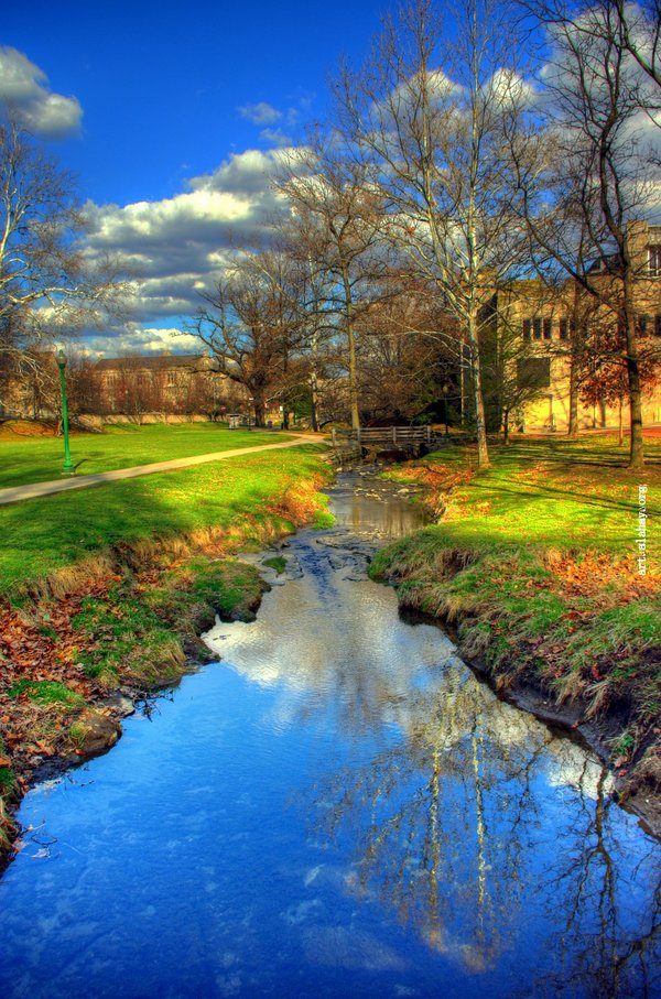 Jordan River and Dunn Meadow on Indiana University Bloomington Campus. In the background, one can see a section of IMU on the right, and HPER on the left.